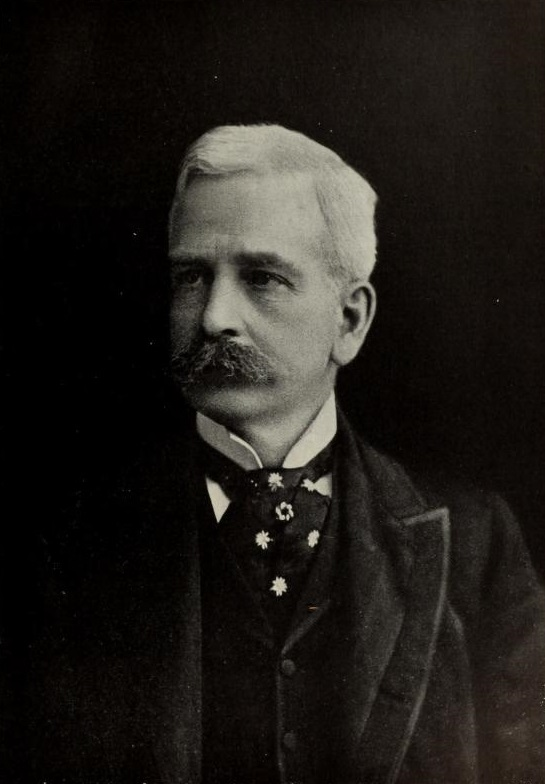 Portrait of Marshall Field